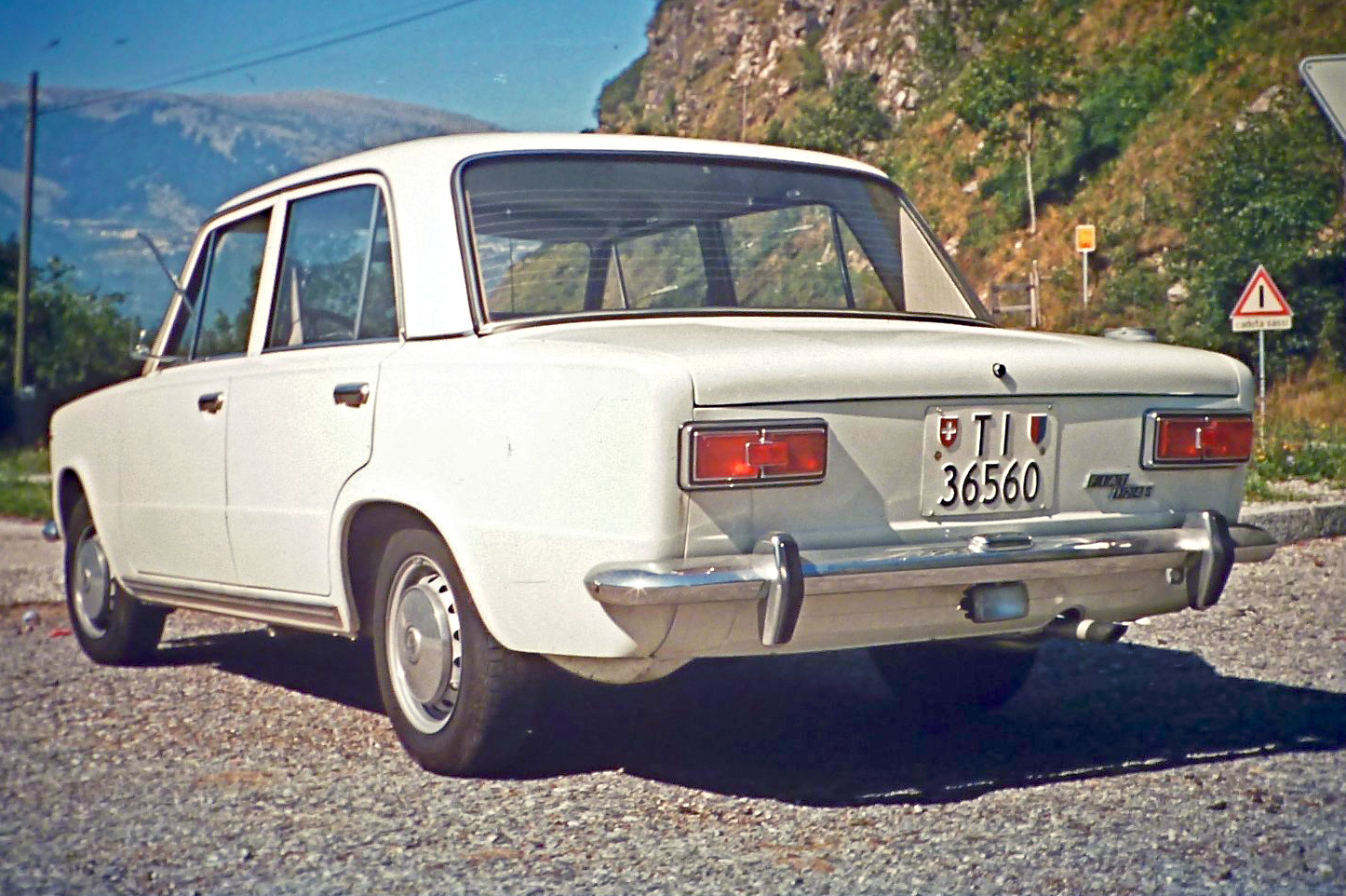 A Fiat 124 S (Special) in Malvaglia, near Ticino (Switzerland) in around 1972.